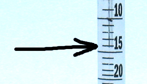 Photo indicates the reading of a vinometer: in this case the measured alcohol-by-volume-content is slightly higher than 14%, indicated by the liquor column extending from above. The lower that column reaches, the higher the alcohol content.